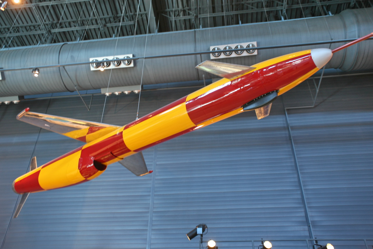 This is the RTV-N-15, also known as Pollux, a post-World War II U.S. Navy pulsejet-powered research vehicle for missile development and testing piloted aircraft components. The last and largest vehicle of the important Gorgon series of post-war experimental Navy missiles, it was unusual in having an internally-mounted pulsejet and was an attempt to increase the normally slow operating speed of a pulsejet vehicle by streamlining. The design range was 75-100 nautical miles, with guidance by active radar and heat-seeking homing. It made only three test flights from 1948-1951 and then was cancelled due to its slow development. This is probably the only extant example of the RTV-N-15 and was donated to the Smithsonian in 1971 by the U.S. Navy. Steven F. Udvar-Hazy Center.